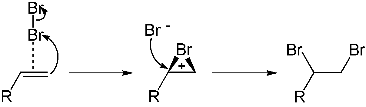 Addition of bromine to an alkene